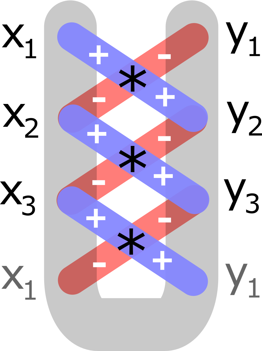 picture that explains the shoelace pattern